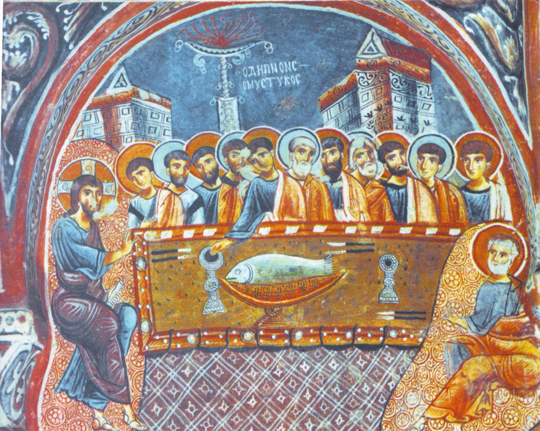 Last Supper. Fresco in Dark Church, Cappadocia, Goreme